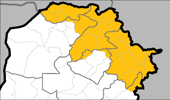 Iraqi Kurdistan 2009